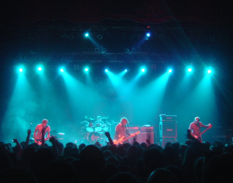 Mastodon peforming live in London in 2007.